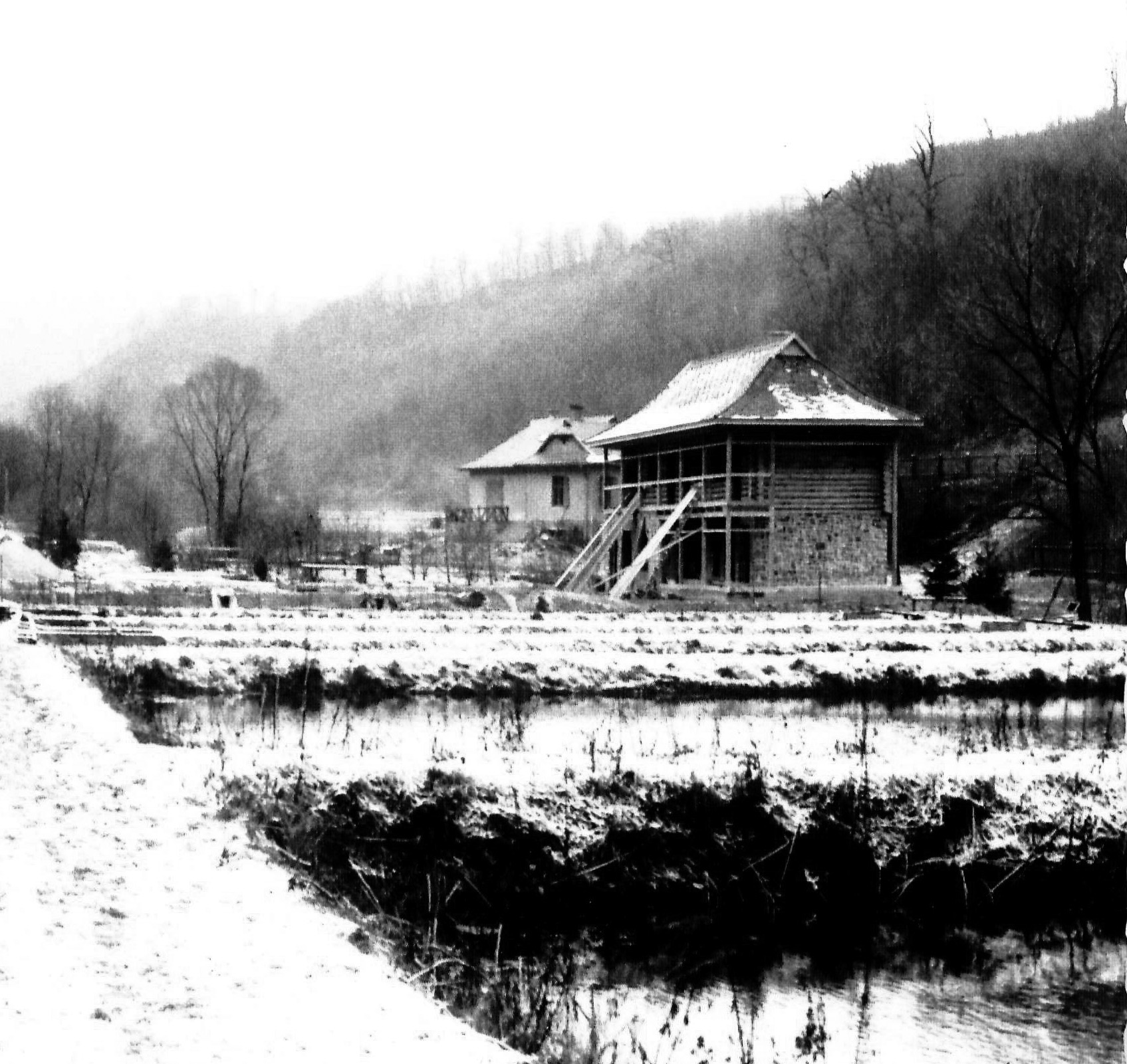 Trout plant construction in 1932, Lillafüred, Hungary